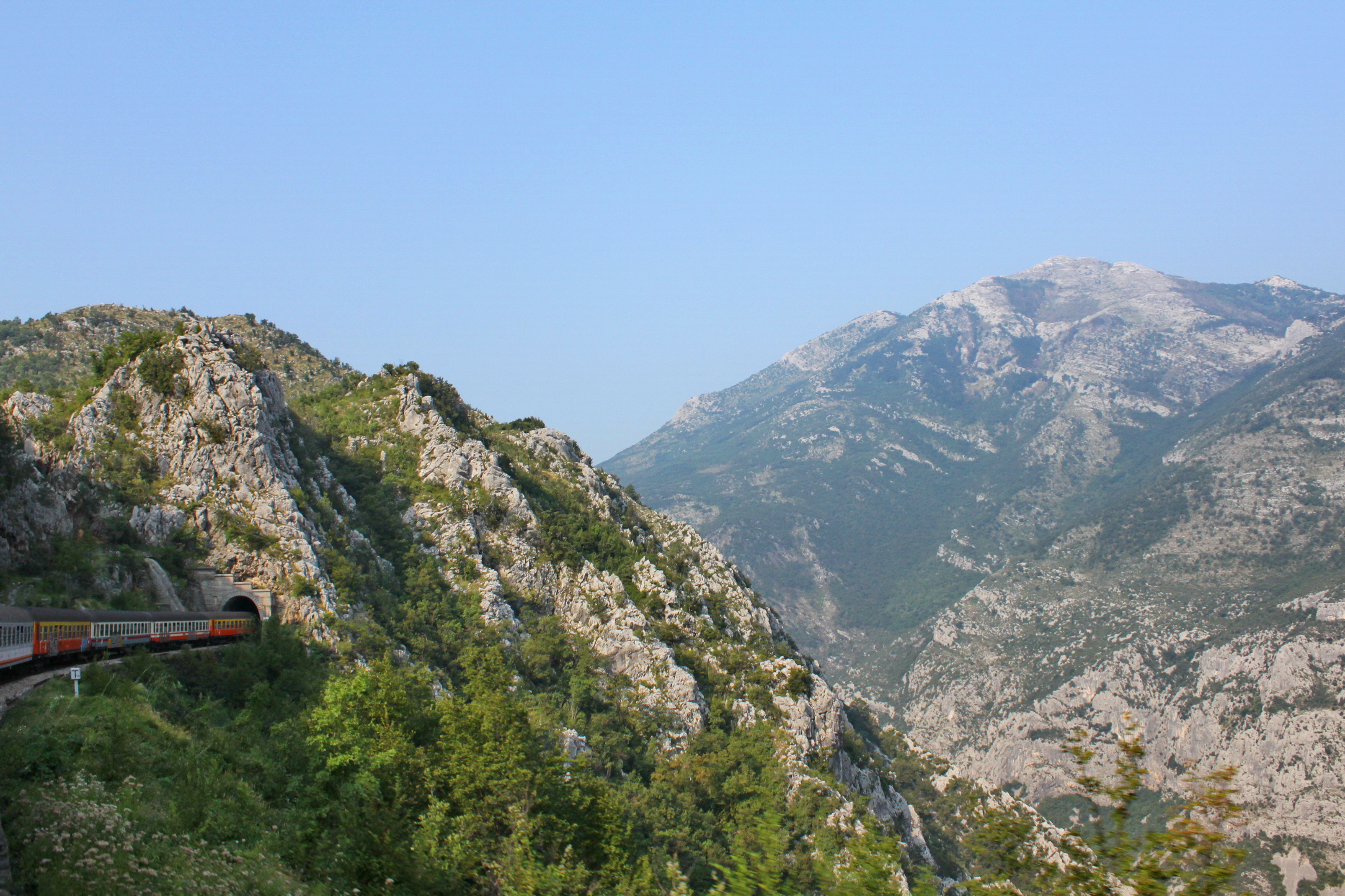 Views of Montenegro from the train on the Belgrade–Bar railway